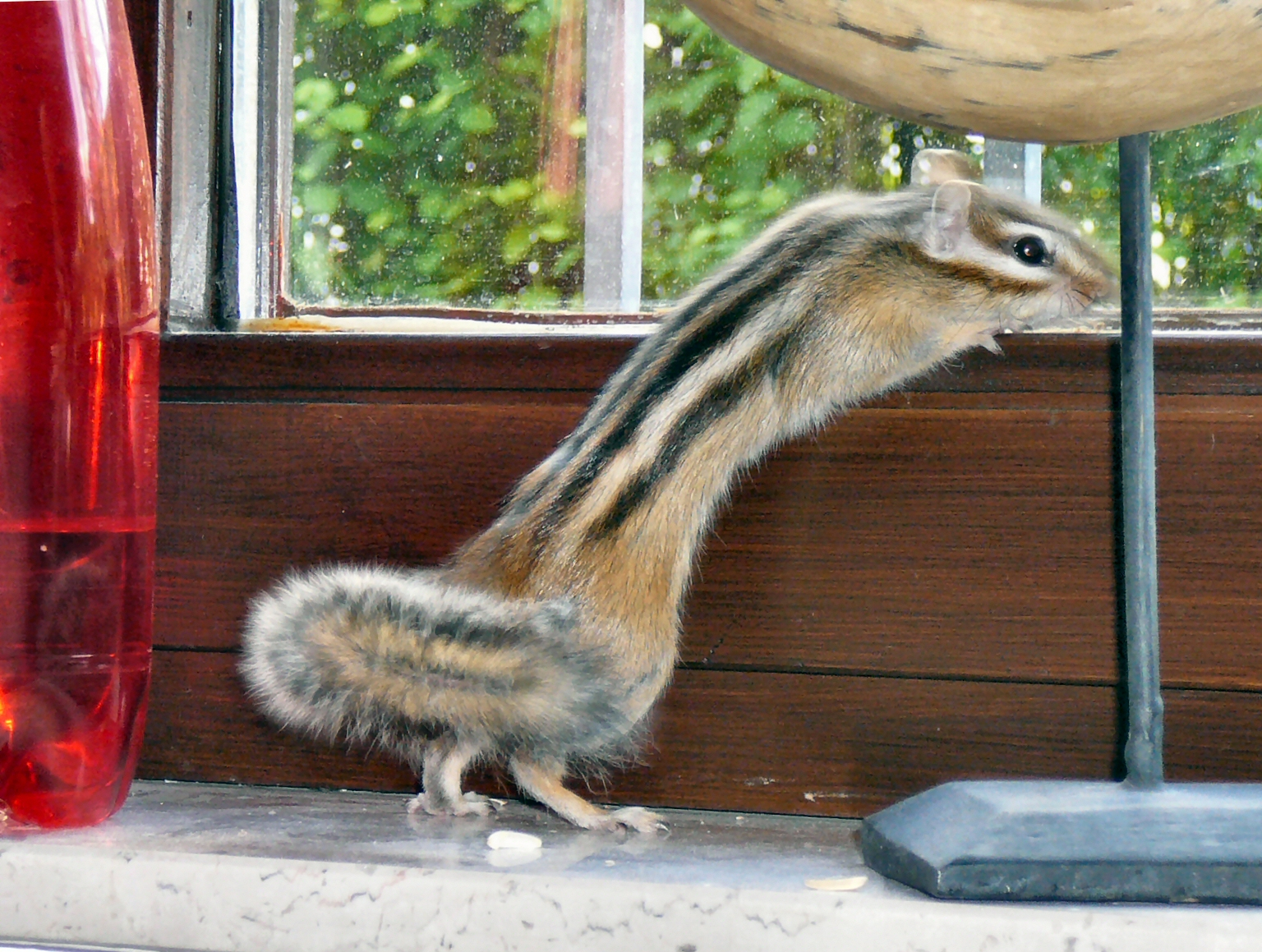 Siberian Chipmunk. Side view, stretched.